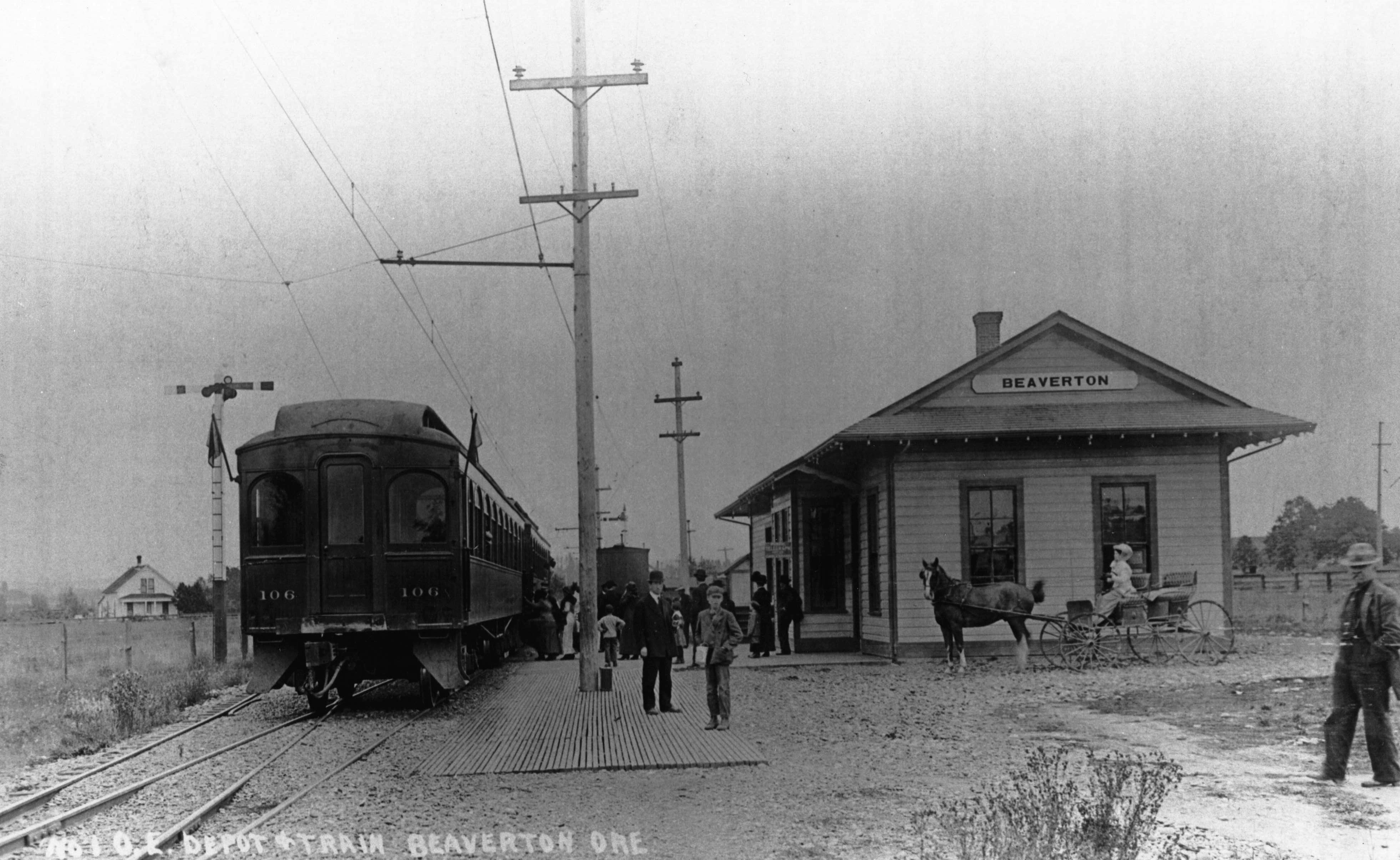 Beaverton Depot for Oregon Electric Railway. Historical images of Beaverton, Oregon.